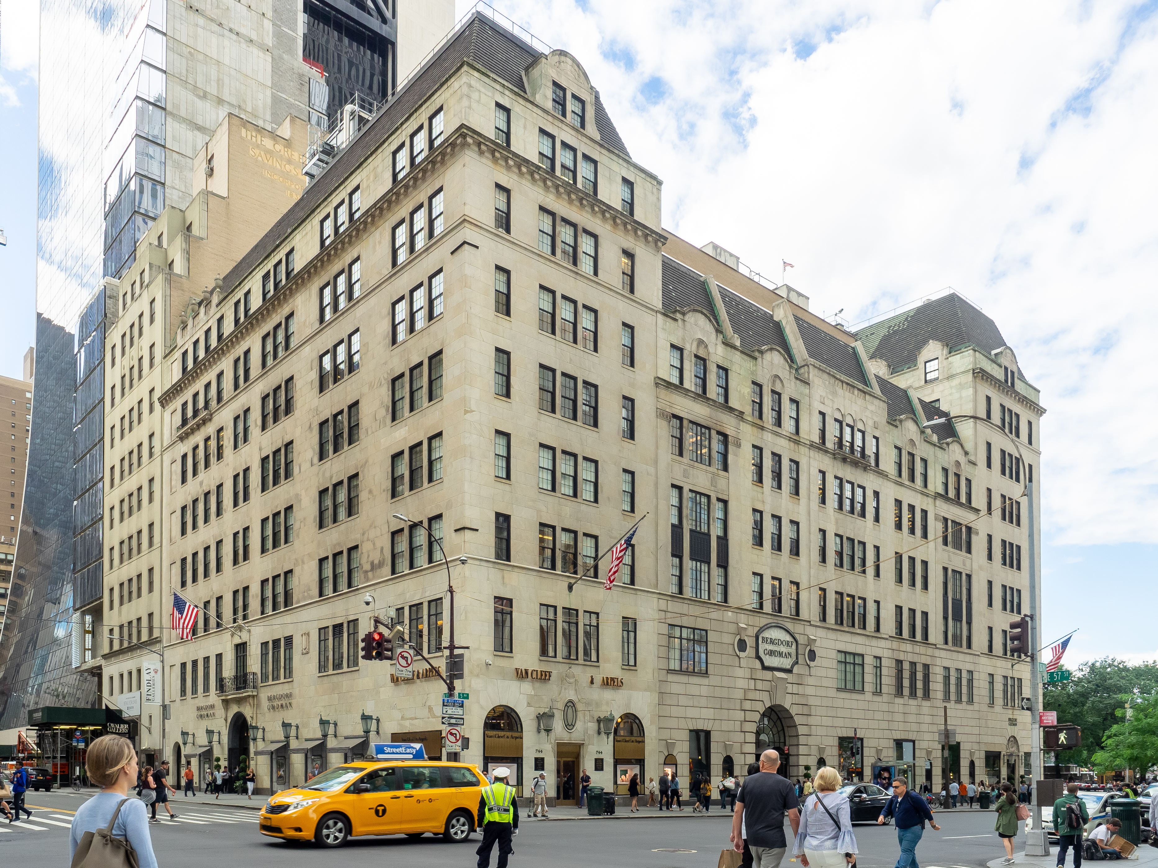 5th Ave, Midtown, NYC